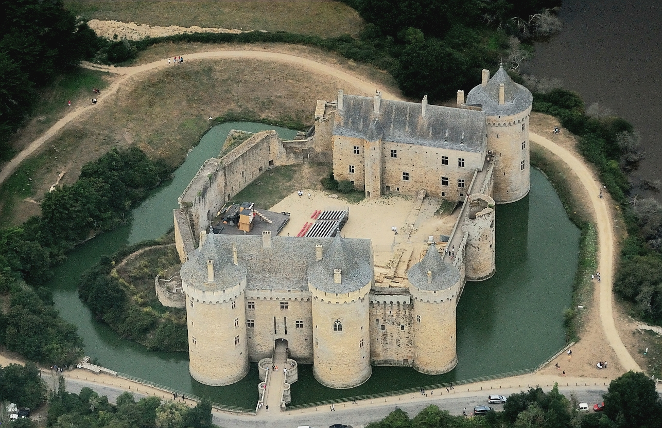 Aerial view from the East of Suscinio castle at Sarzeau, Brittany. Nikon D60 f=70mm f/4.2 at 1/4000s ISO800. Processed using Nikon ViewNX 2.1.2 and GIMP 2.6.11.